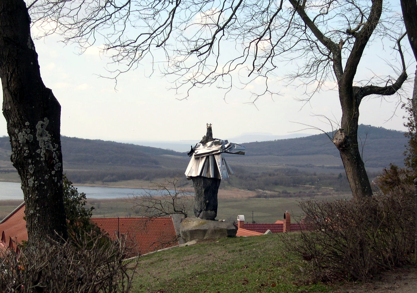 Imre Varga:Parent